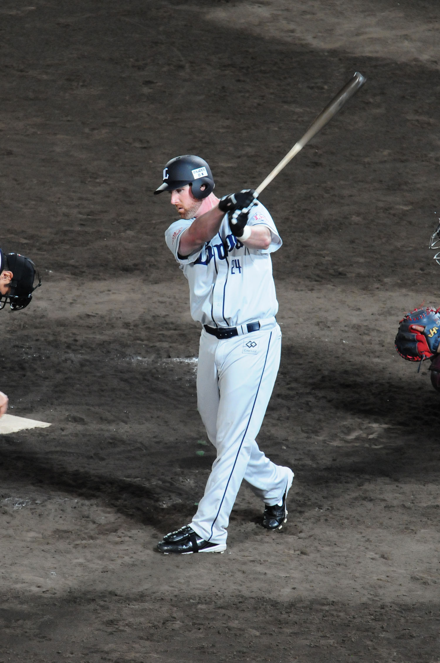 Ryan Mulhern, outfielder of the Saitama Seibu Lions, at Akita Prefectural Baseball Stadium.